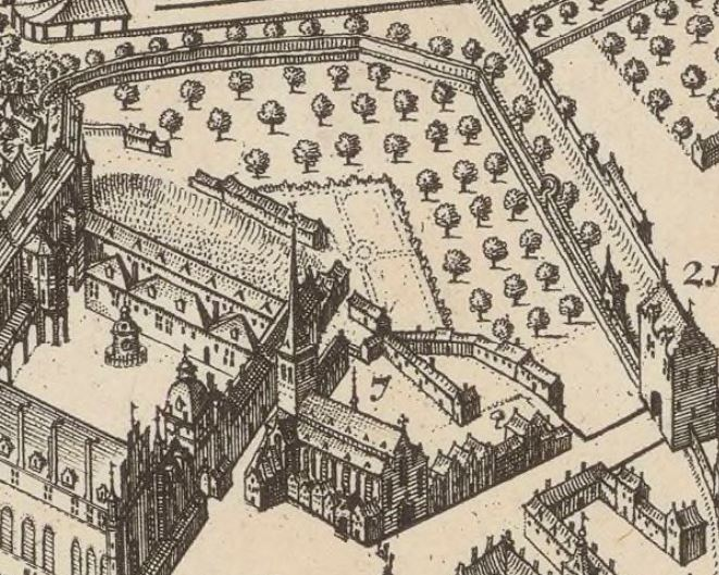 Detail of 1695 map by J. Laboureur & Josse van der Baren, Bruxella, nobilissima Brabantiæ civitas